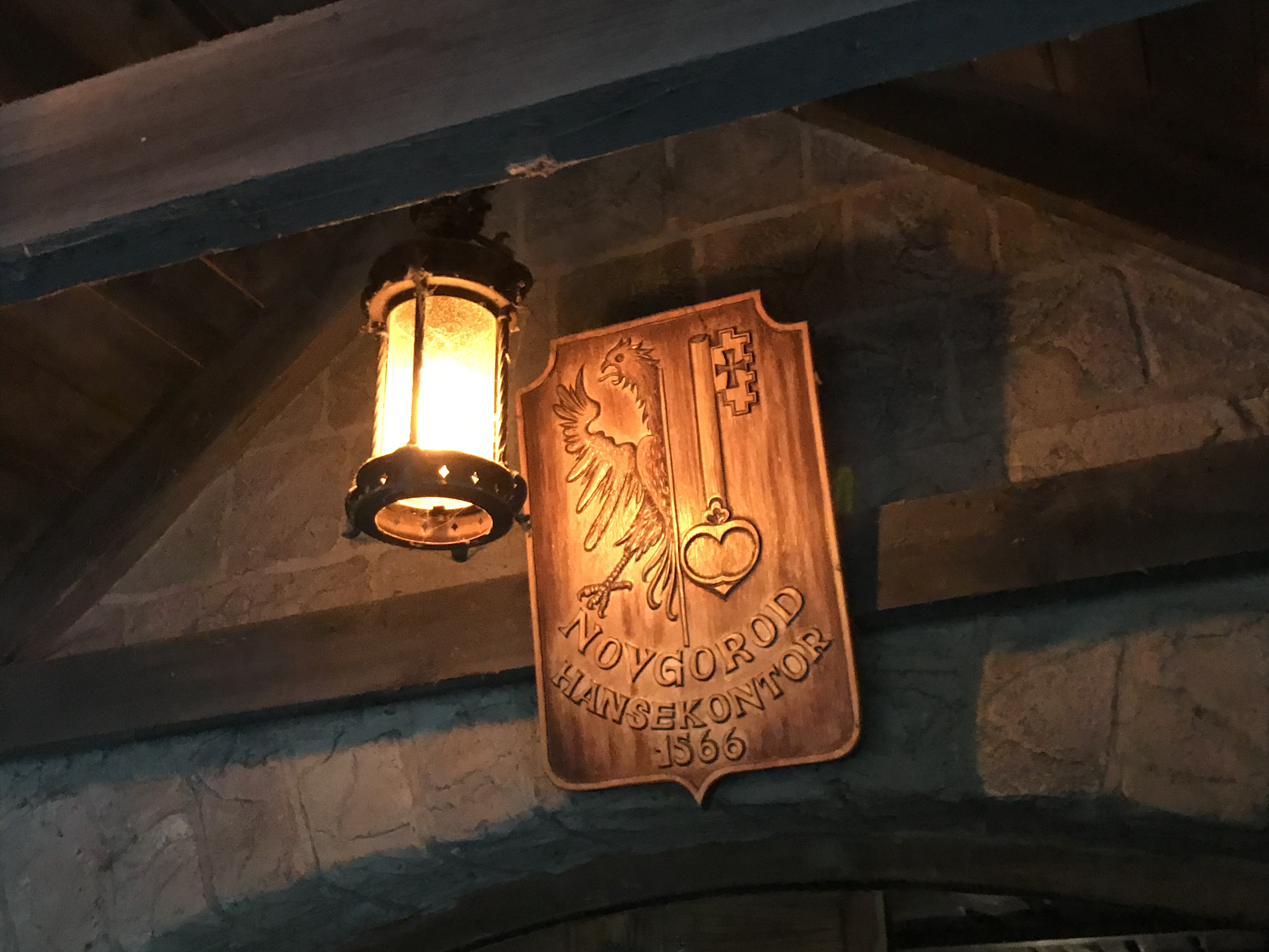 The logo of the Novgorod Hansekontor in Hansa-Park's Fluch von Novgorod